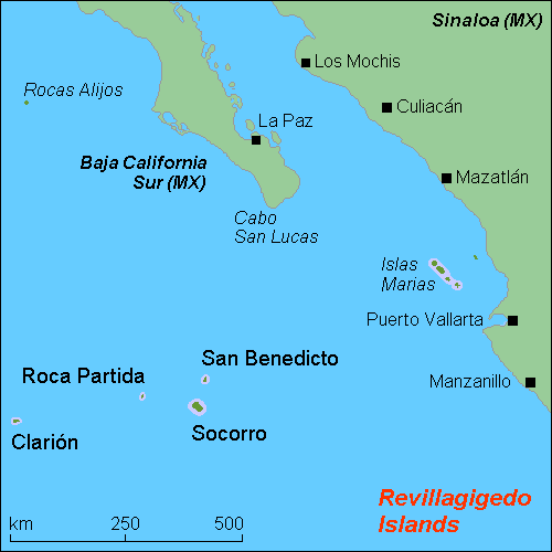 Locator Map (rough) of the volcanic Revillagigedo Islands or Revillagigedo Archipelago, off western Mexico.